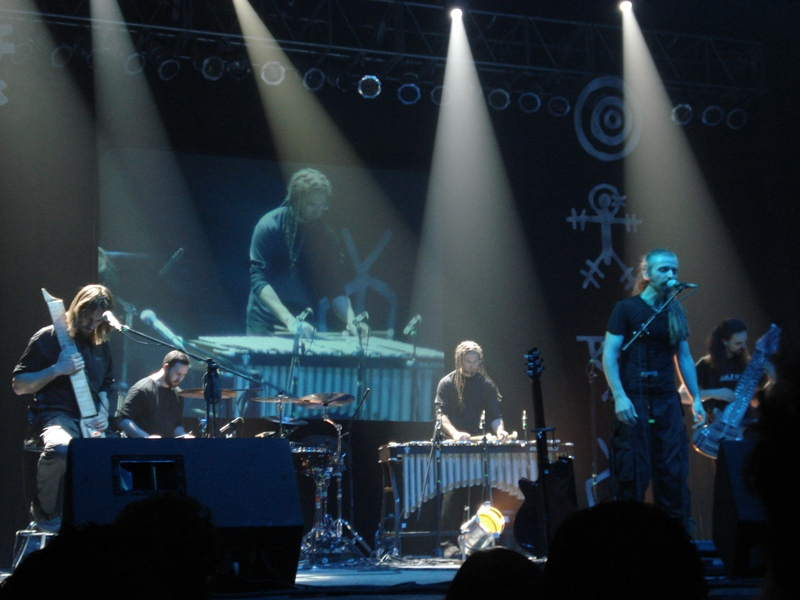 This is my own work, I took it while I was at Baja Prog 2007, on Saturday March 24th. You can use it in any site you want.